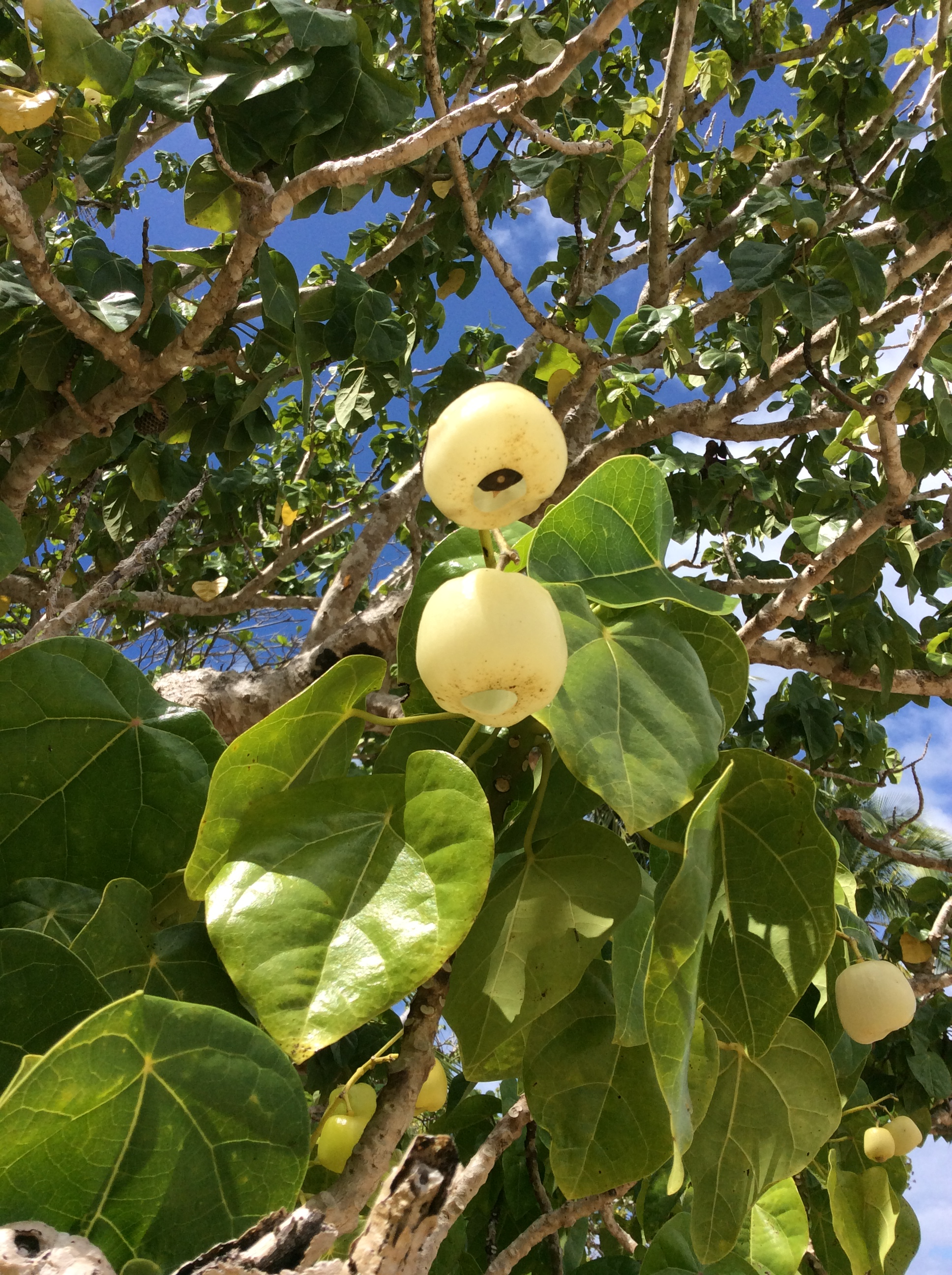 Fruits of Hernandia nymphaeifolia, Lawaki on Beqa Island, Fiji